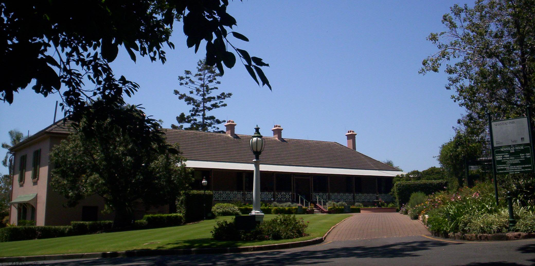 Newstead House, Brisbane, Queensland, Australia